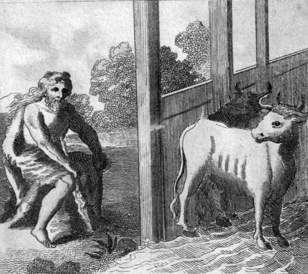 Hercules cleaning the Augean stables. Illustration from "THE TWELVE LABOURS OF HERCULES, SON OF JUPITER & ALCMENA", 1808. Available from the Project Gutenburg site.